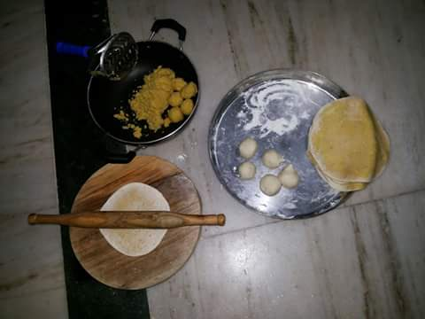 Moong Dal and Jaggery stuffing in Wheat Poli flavored in Elaichi flavor and spoon of Pure clarified butter